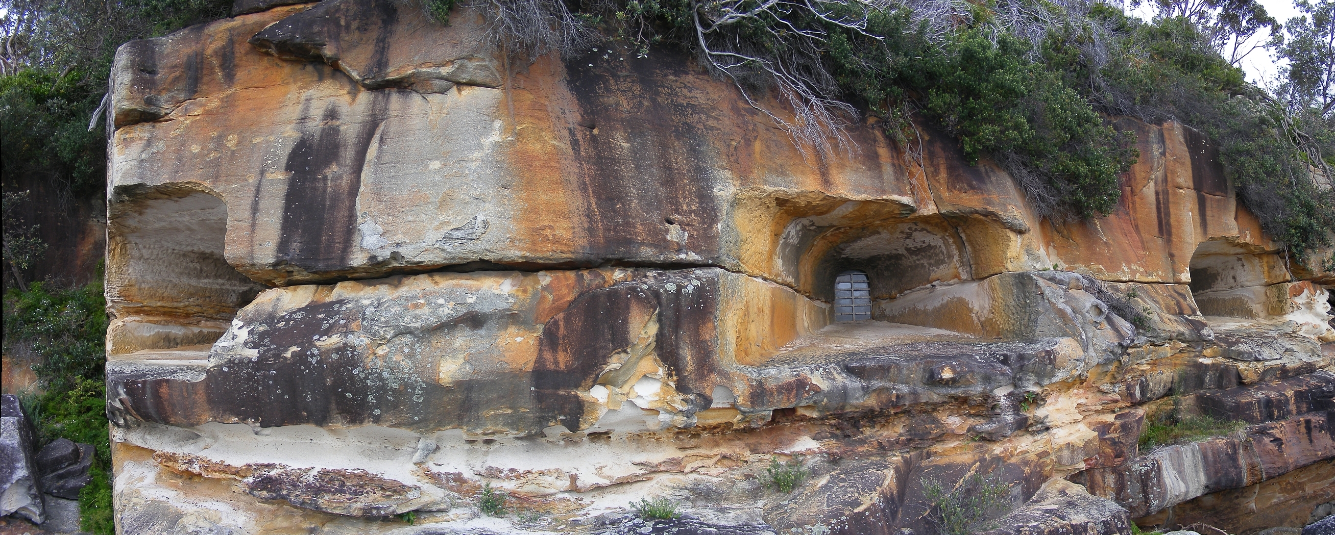 A fortification located on the shores of Sydney Harbour